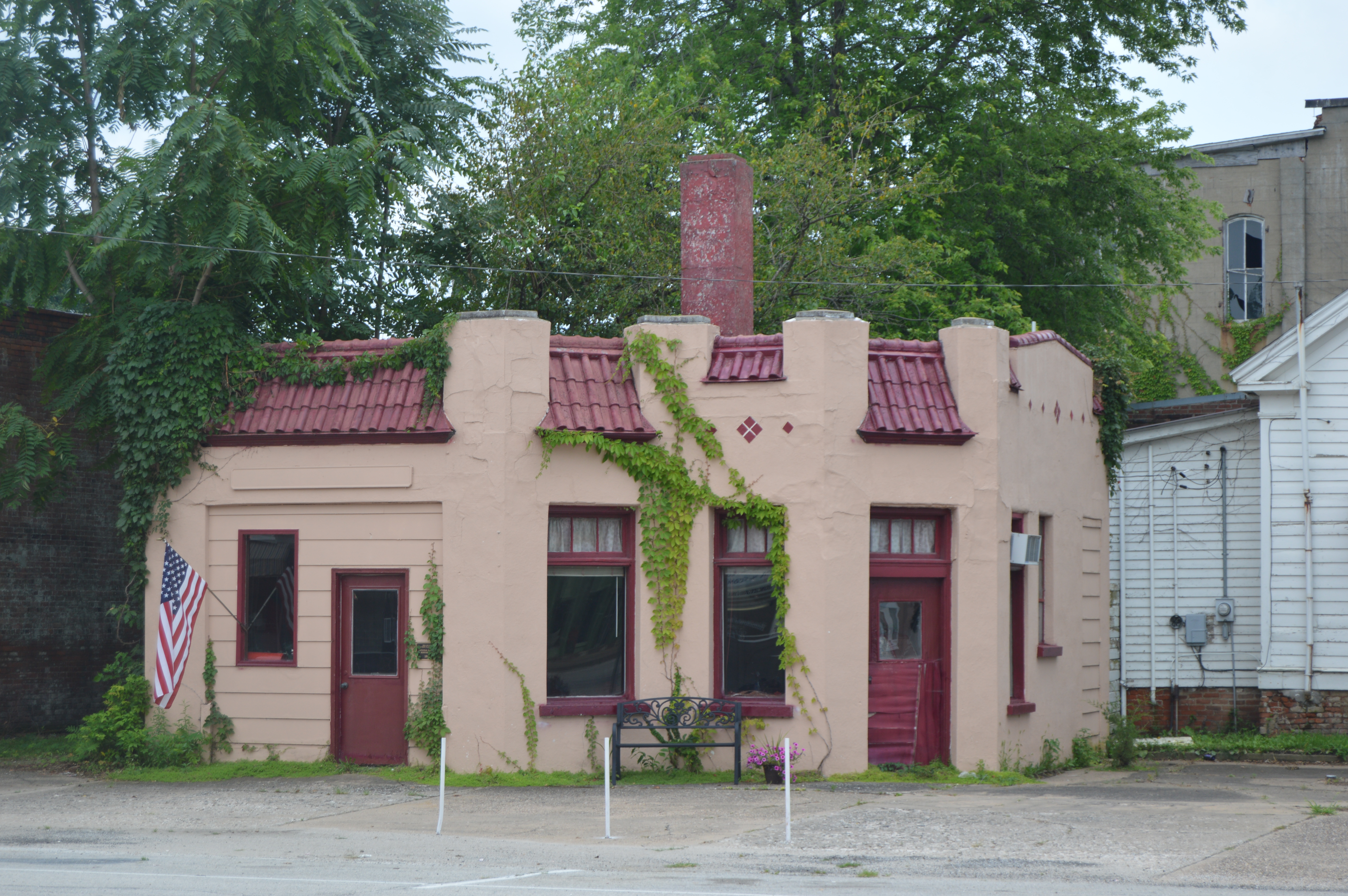 Front of a former gas station located at 101 E. Main Street (Illinois Route 9) in La Harpe, Illinois, United States. Built in 1920, it is part of the La Harpe Historic District, a historic district that is listed on the National Register of Historic Places.